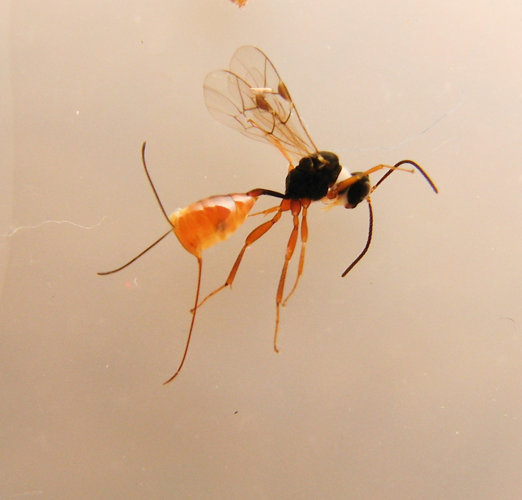 Ichneumonid wasp, subfamily Tersilochinae, caught in pan trap. Size: 4 mm. Willow Grove, Montgomery County, Pennsylvania, USA.